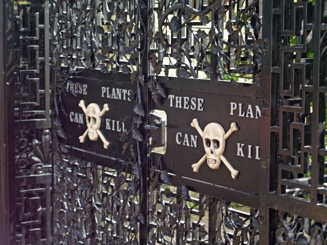 Poison Garden gate Alnwick Do not touch sniff or leave the party at your peril!